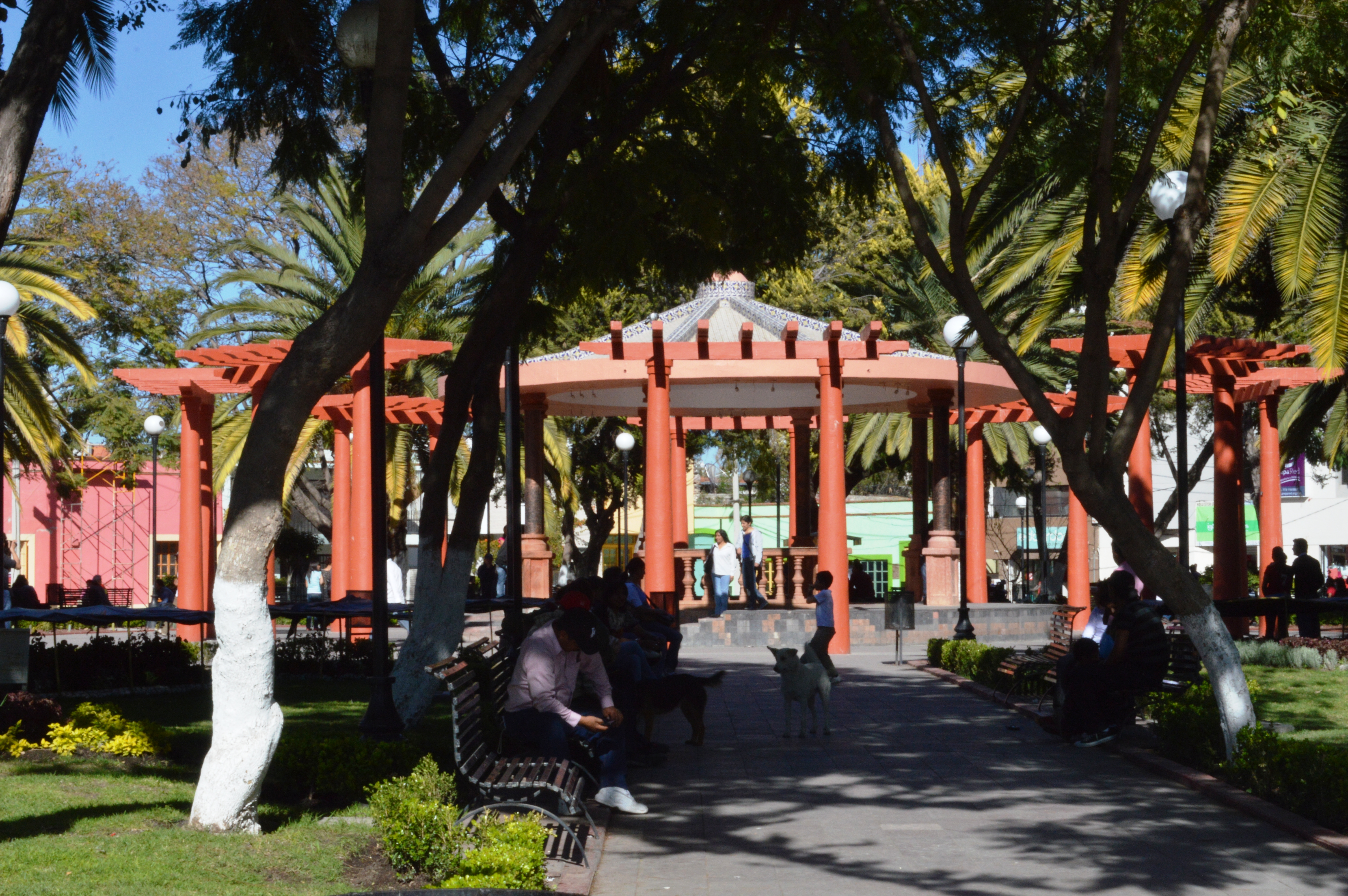 Kiosks in the main plaza of Tula, Hidalgo, Mexico